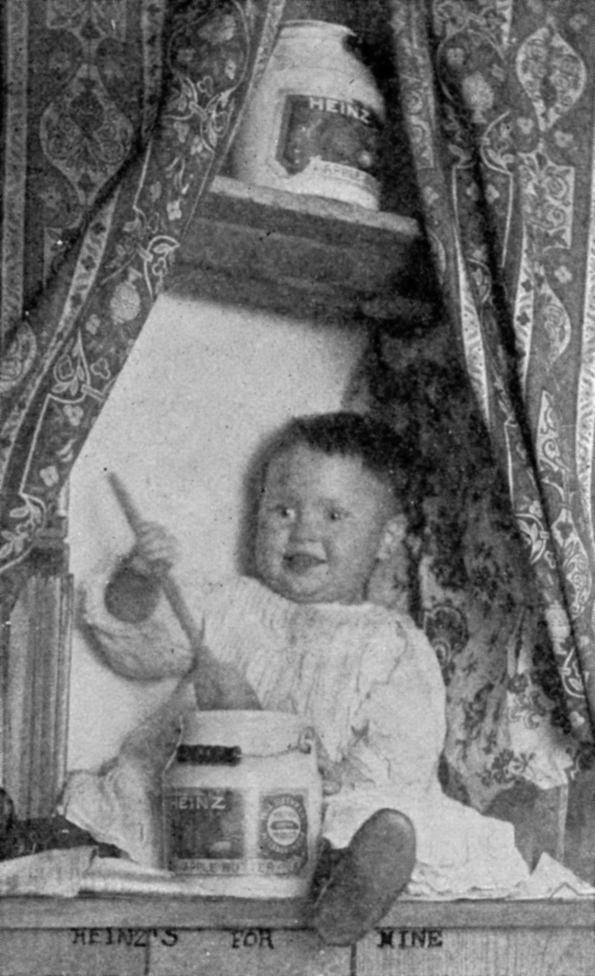 Baby eating Heinz apple butter and smiling, from an H. J. Heinz promotional pamphlet. Originally labelled "PLEASED WITH THE GOODS." From the materials for the Alaska-Yukon-Pacific Exposition of 1909, held in Seattle.